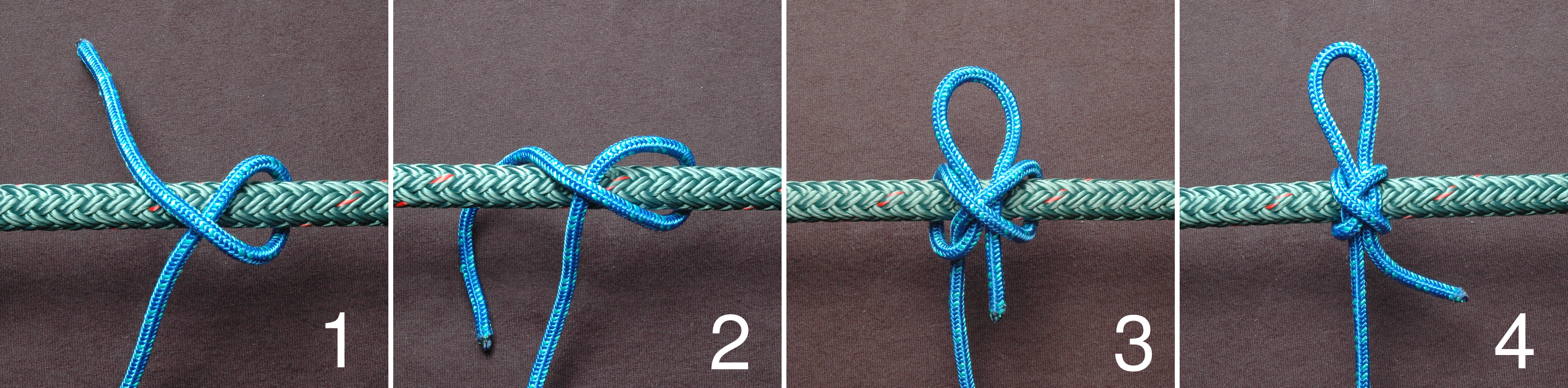 Four steps in tying a slipped Constrictor knot, ABOK #1250.